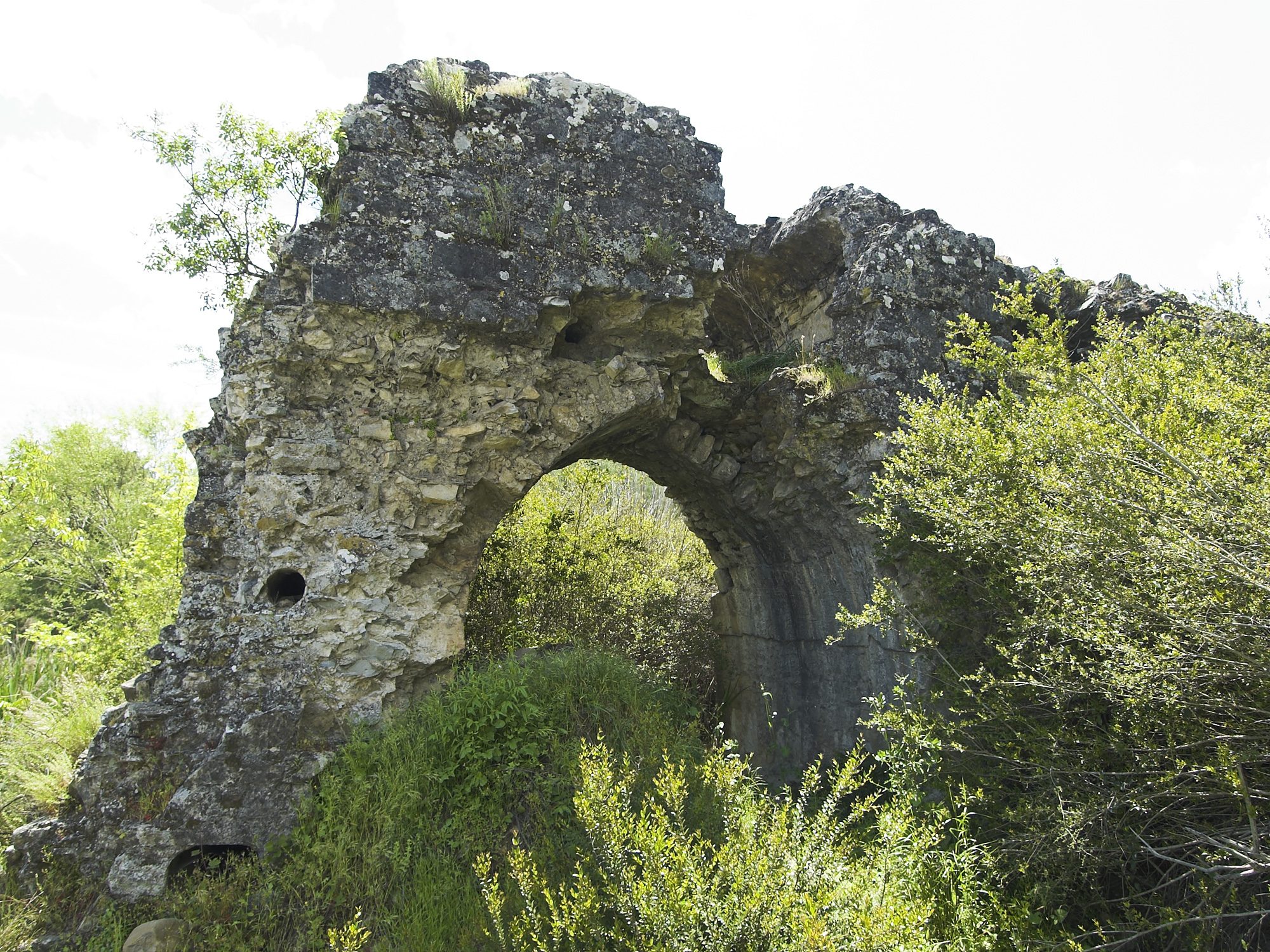 Third arch of the Bridge near Kemer, a Roman arch bridge over the Xanthos river (Koca Çayı) in Lycia, modern-day southwestern Turkey. Above the arch vault is the hollow chamber. The circular ducts supported the Roman scaffolding and falsework during construction. In the bottom left-hand corner the small, arched floodway is visible.